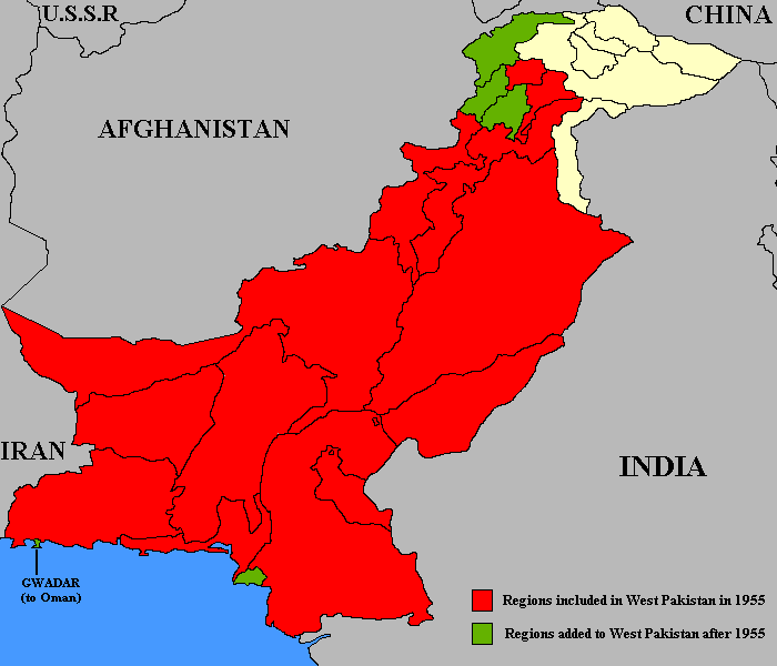 This map shows the relative position of the former West Pakistan province of Pakistan between 1955 and 1970.